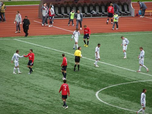 2007 Russian Football Premierleague (PFC CSKA Moscow v.s. FC Saturn)